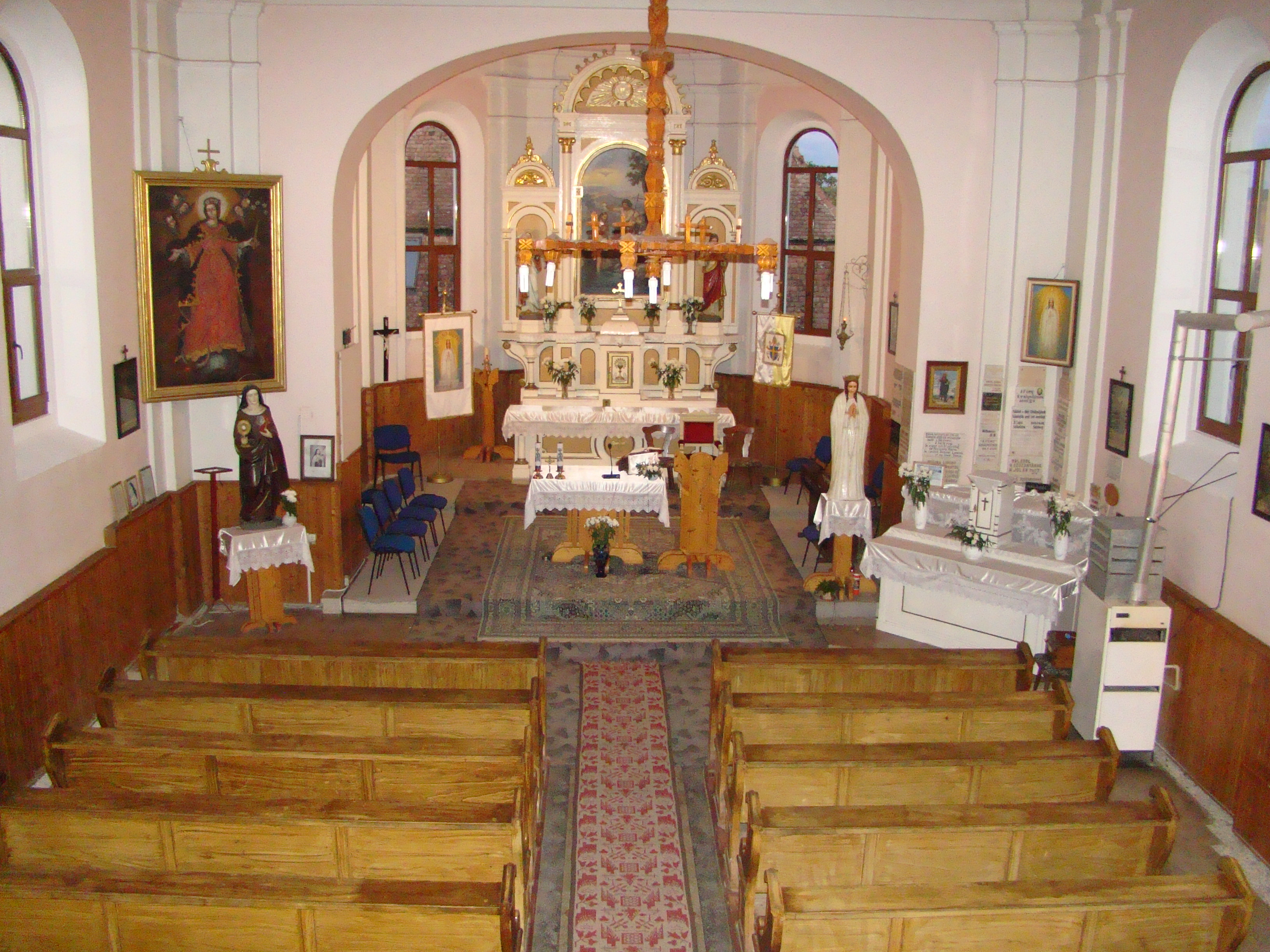 Roman Catholic church in Seuca, Mureş county, Romania